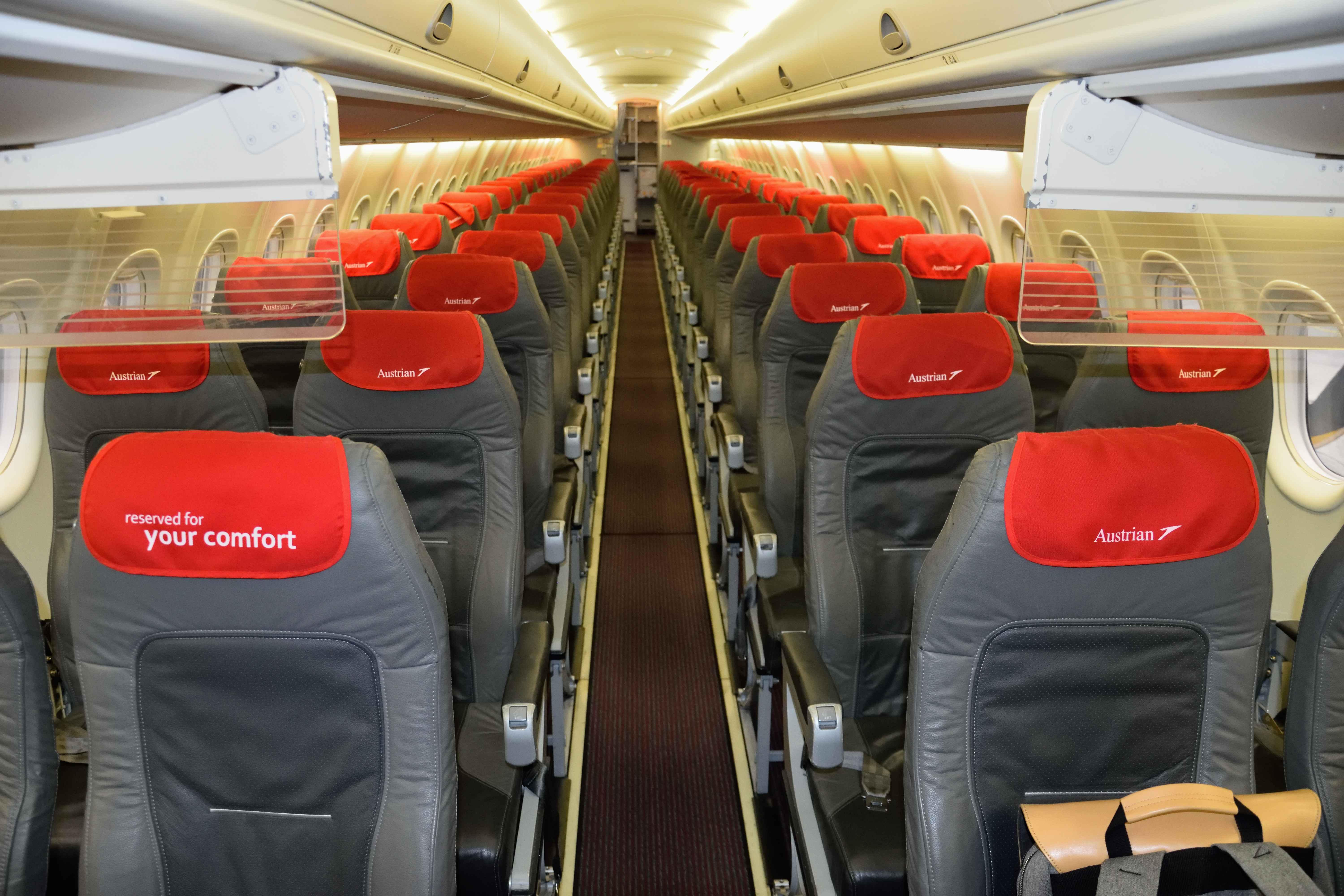 Cabin of Austrian Airlines De Havilland Canada DHC-8-400 OE-LGO